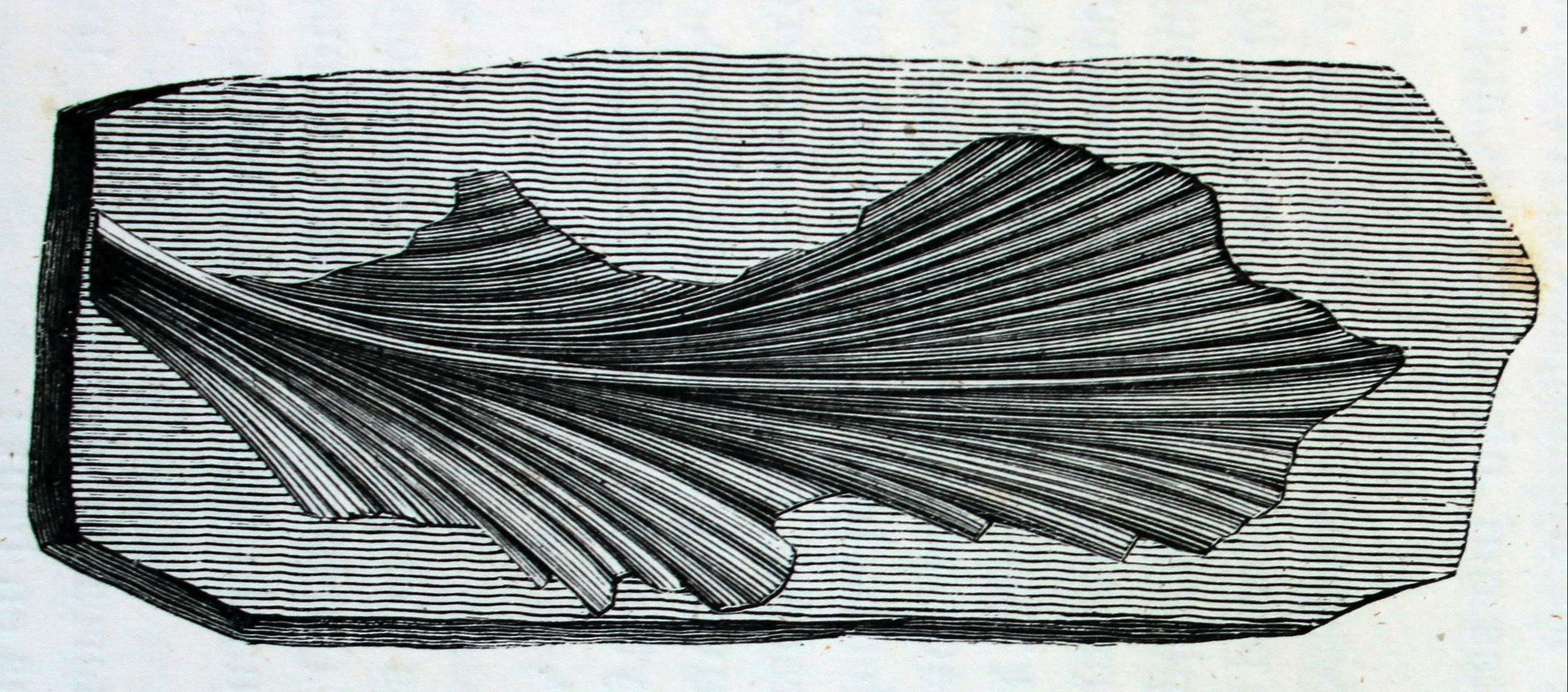 Crop of file in filename